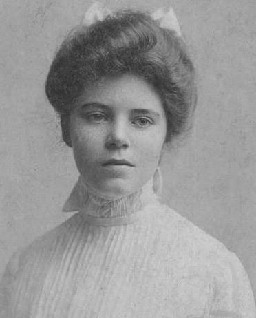 en:1901 portrait of Alice Paul, cofounder of the Congressional Union for Women Suffrage, later the National Woman's Party. Author/Source: Image Copyright © 1901. Image obtained from